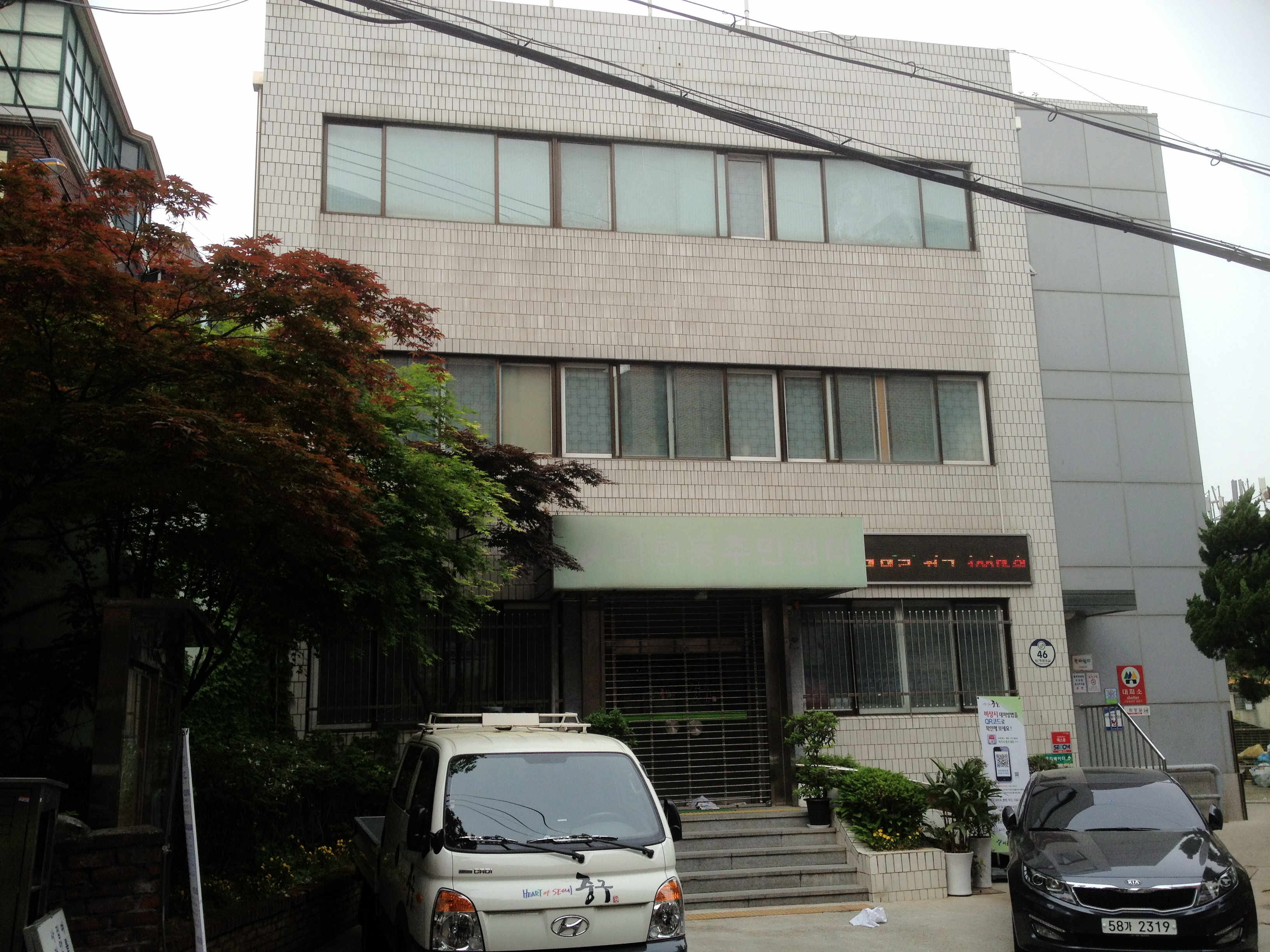 Hoehyeon-dong Comunity Service Center(Jung-gu)